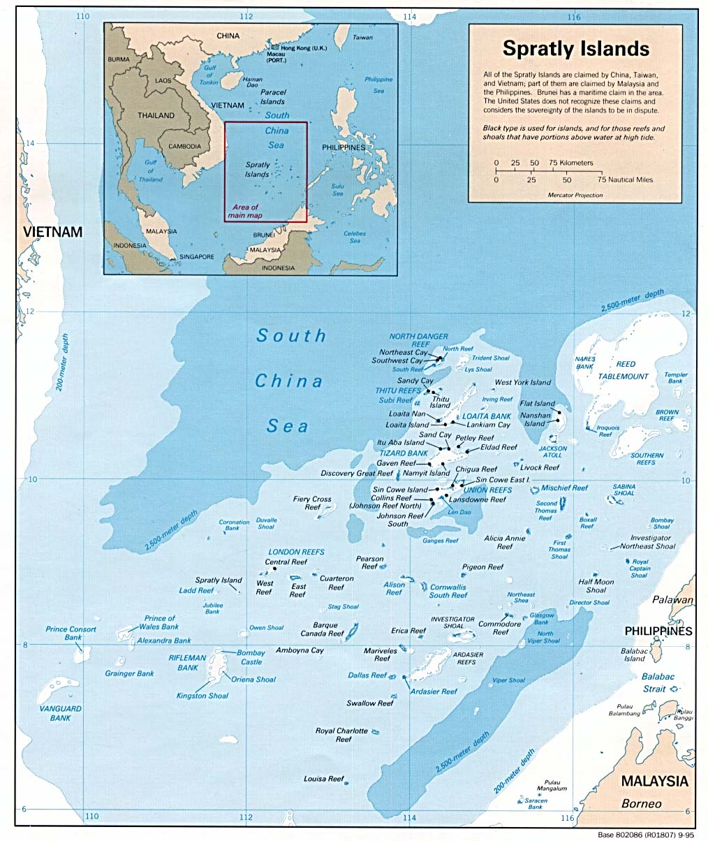 Source: Central Intelligence Agency 1995.